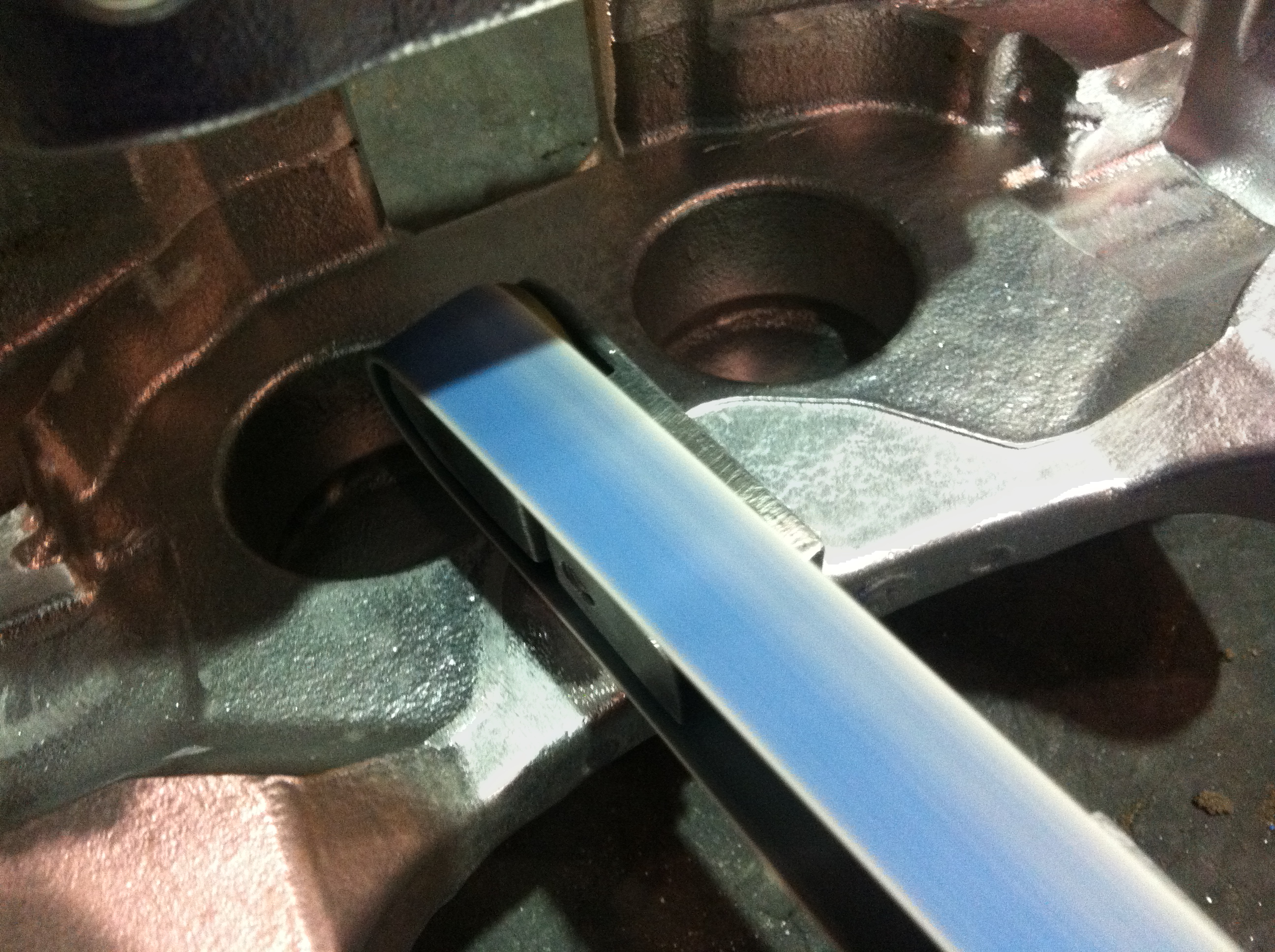 Deburring with hand grinder